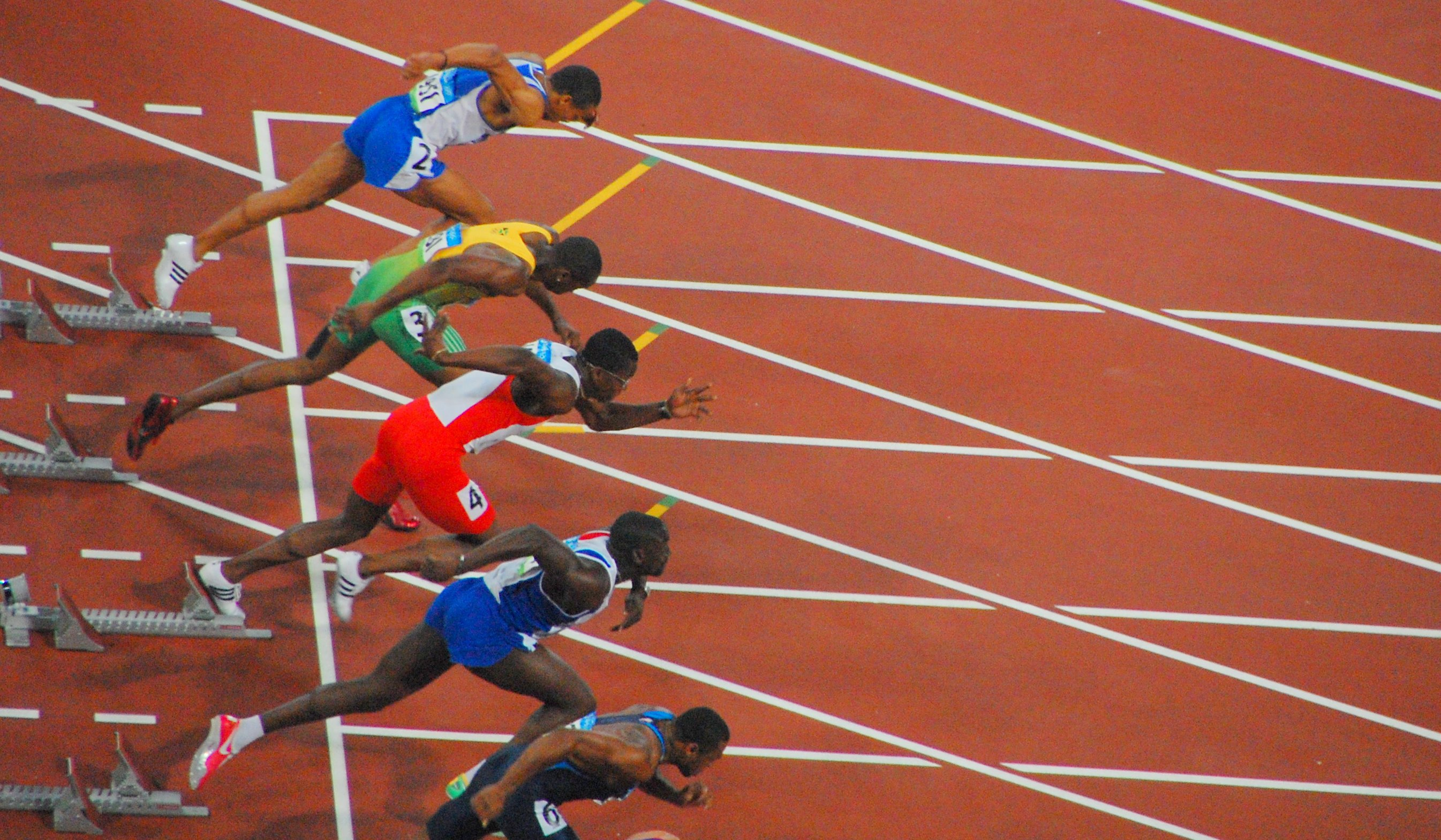 2008 Summer Olympics - Men's 110m Hurdles Semifinal 1 2 DOUVALIDIS Konstadinos 3 PHILLIPS Richard 4 ROBLES Dayron 5 DOUCOURE Ladji 6 PAYNE David